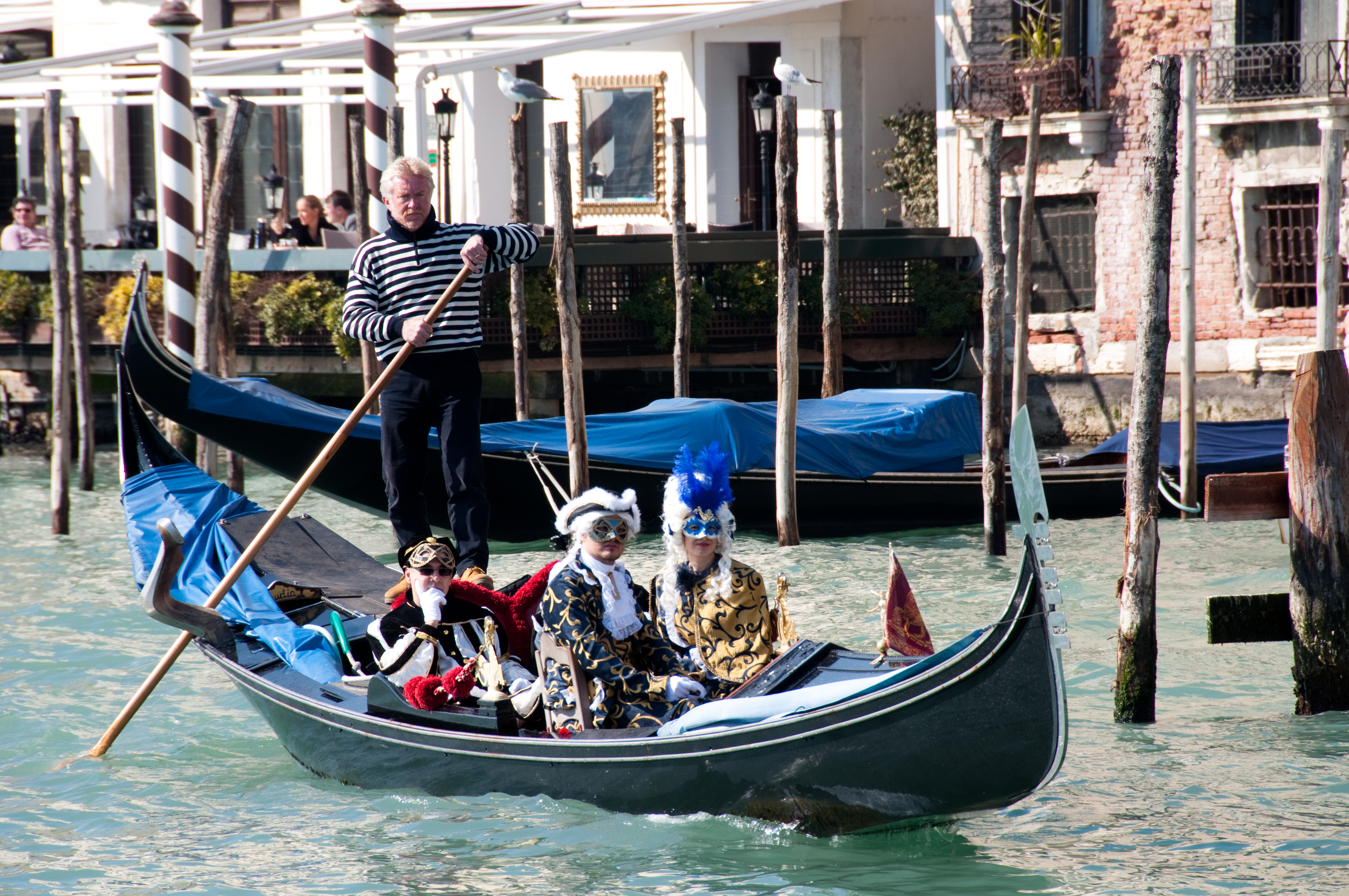 Carnival @ Venice 2011, Italy Personality rights warning Although this work is freely licensed or in the public domain, the person(s) shown may have rights that legally restrict certain re-uses unless those depicted consent to such uses. In these cases, a model release or other evidence of consent could protect you from infringement claims.